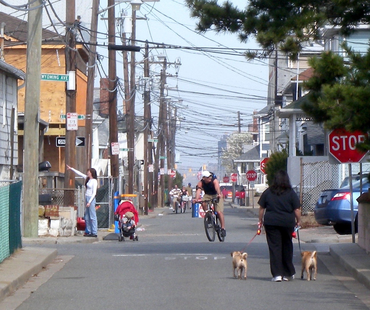 Looking east, full zoom, on Ocean View Avenue, a narrow street where cars are limited.